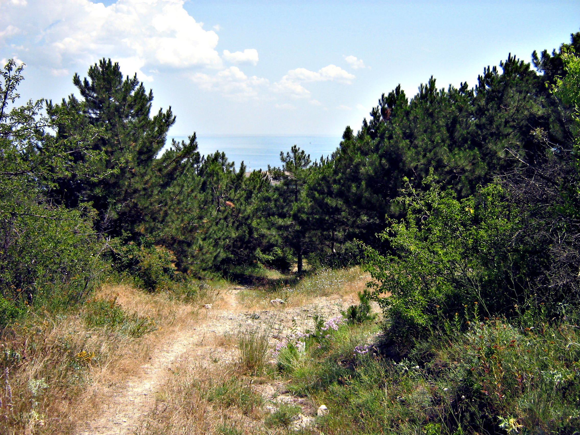 Ukraine. Crimea. Mountans. Tepe-Oba. Forest.